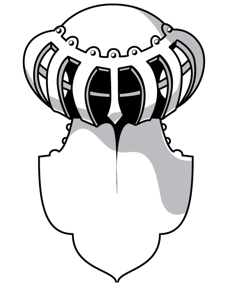 Helmet. Element of Coat of arms.